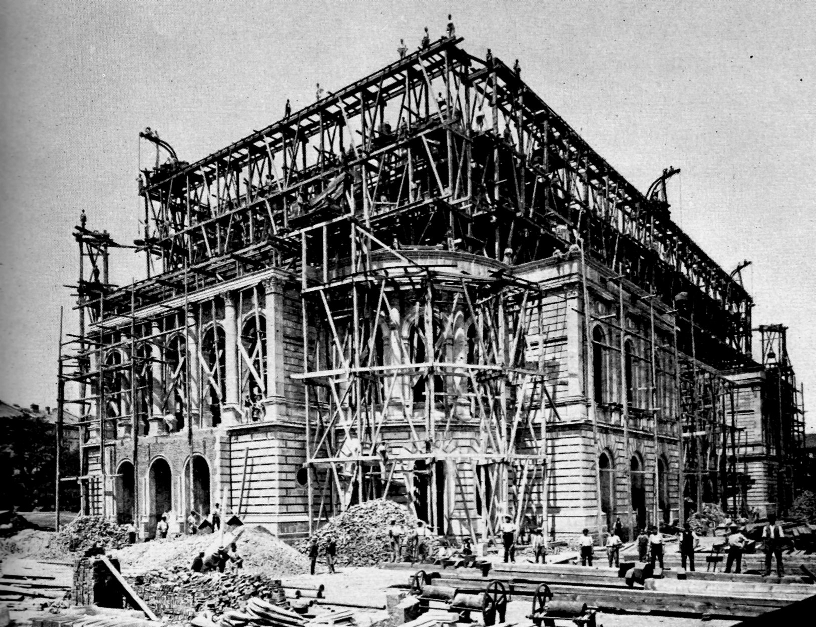 construction in progress of opera house in Frankfurt on main, Germany, as carried out by building contractor Philipp Holzmann 1873 to 1878